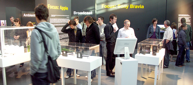 The launch night of the D&AD (design and advertising) Exhibition at Urbis.